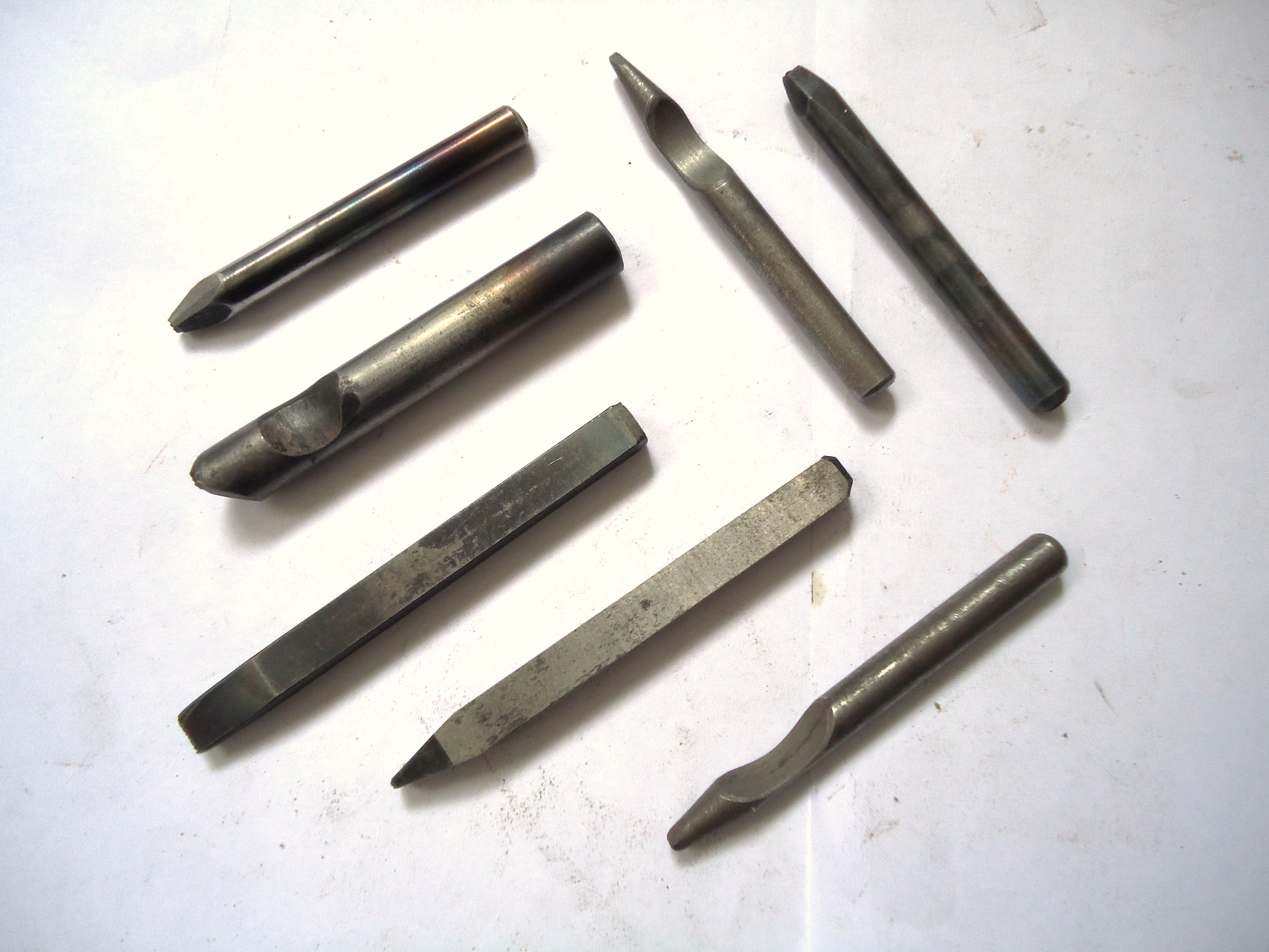 Steel punches used in hallmarking jewels and other precious objects. Photo : Mauro Cateb, Brazilian jeweler.